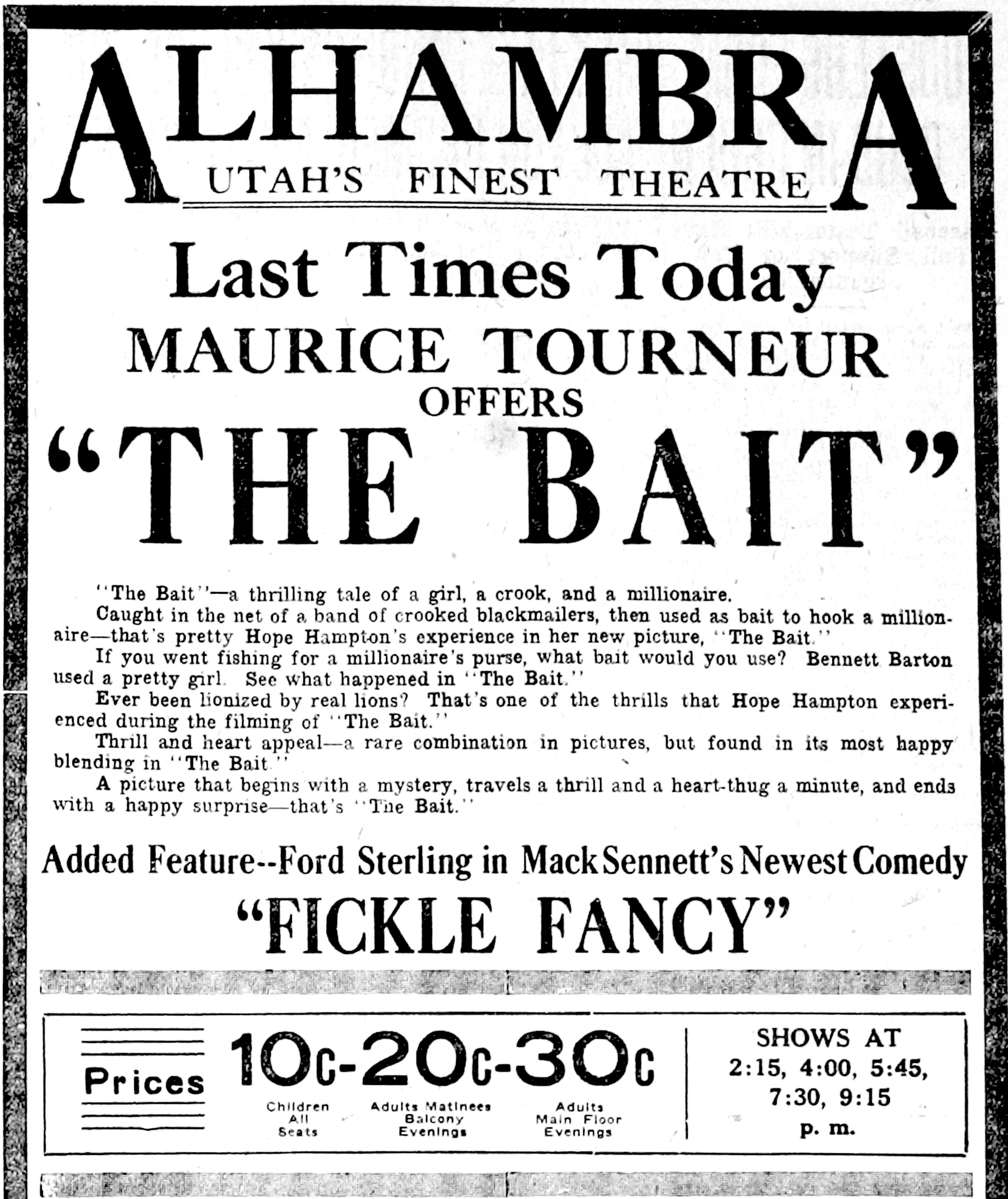 A newspaper advertisement for The Bait a 1921 movie.